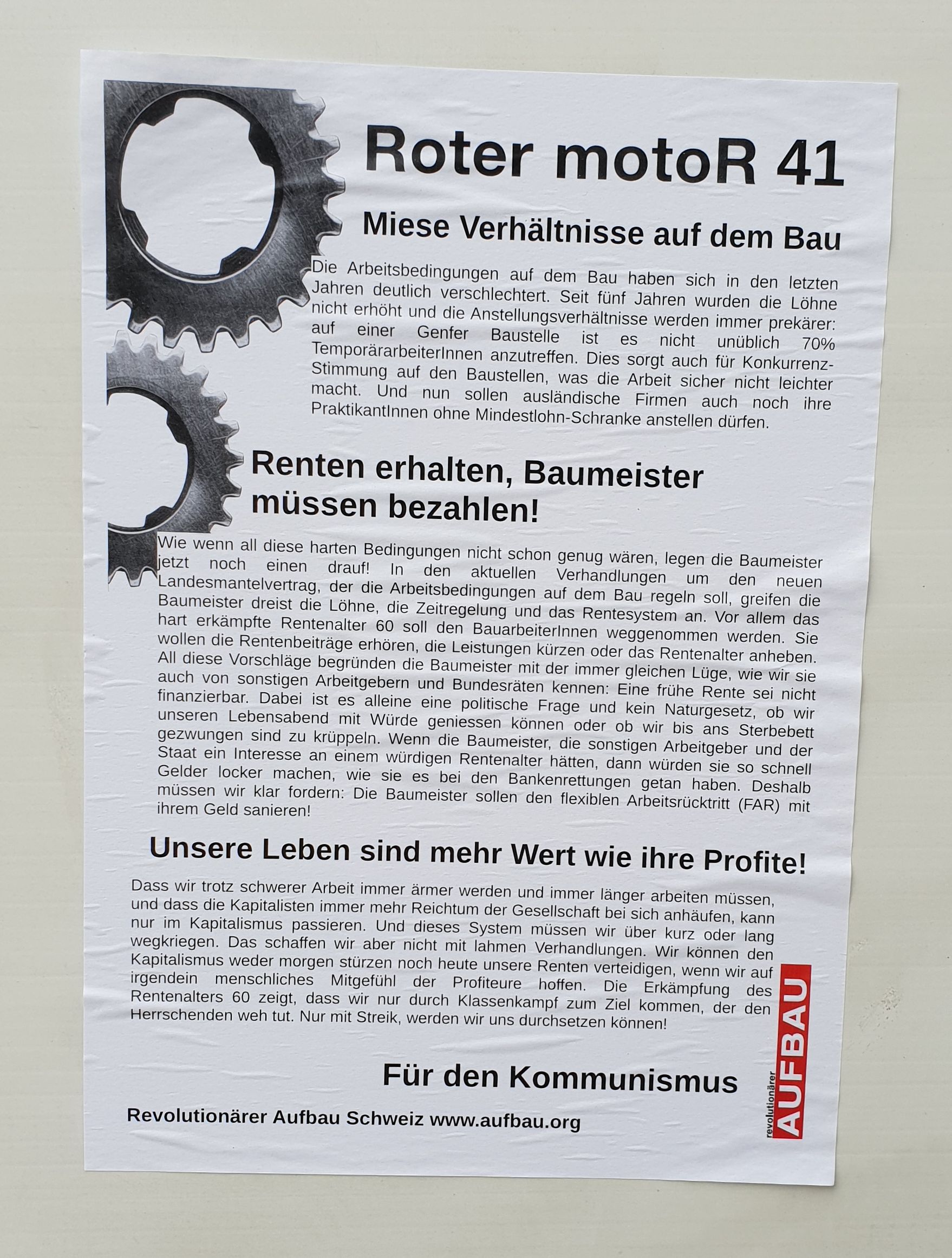 Wall Newspaper by Zurich's communist group Revolutionärer Aufbau Zürich (RAZ).